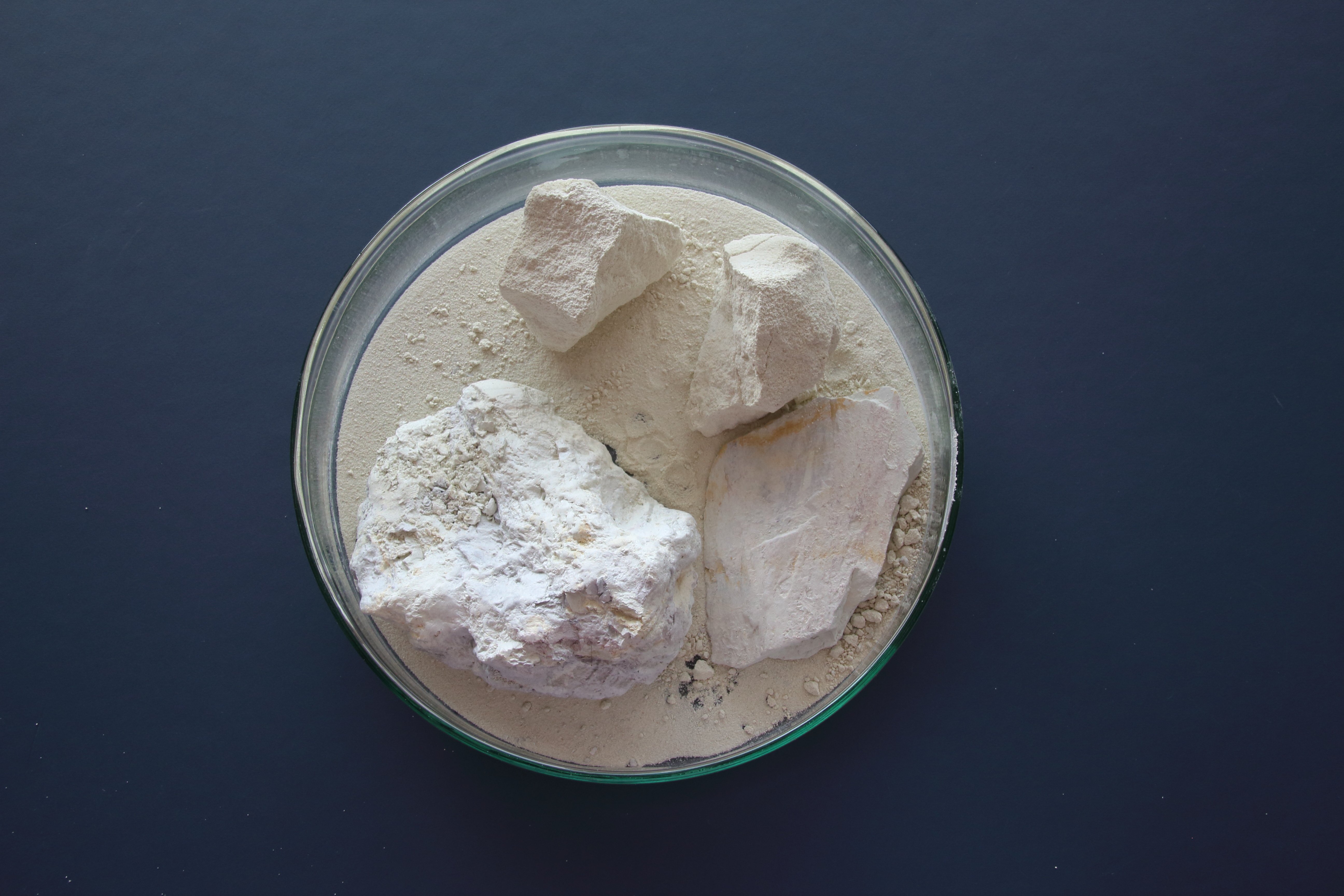 Kaolinite from the Geisenheim kaolin mine, Germany. Freimuth Collection.